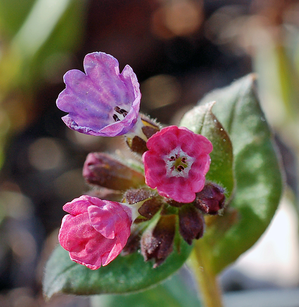 Lungwort